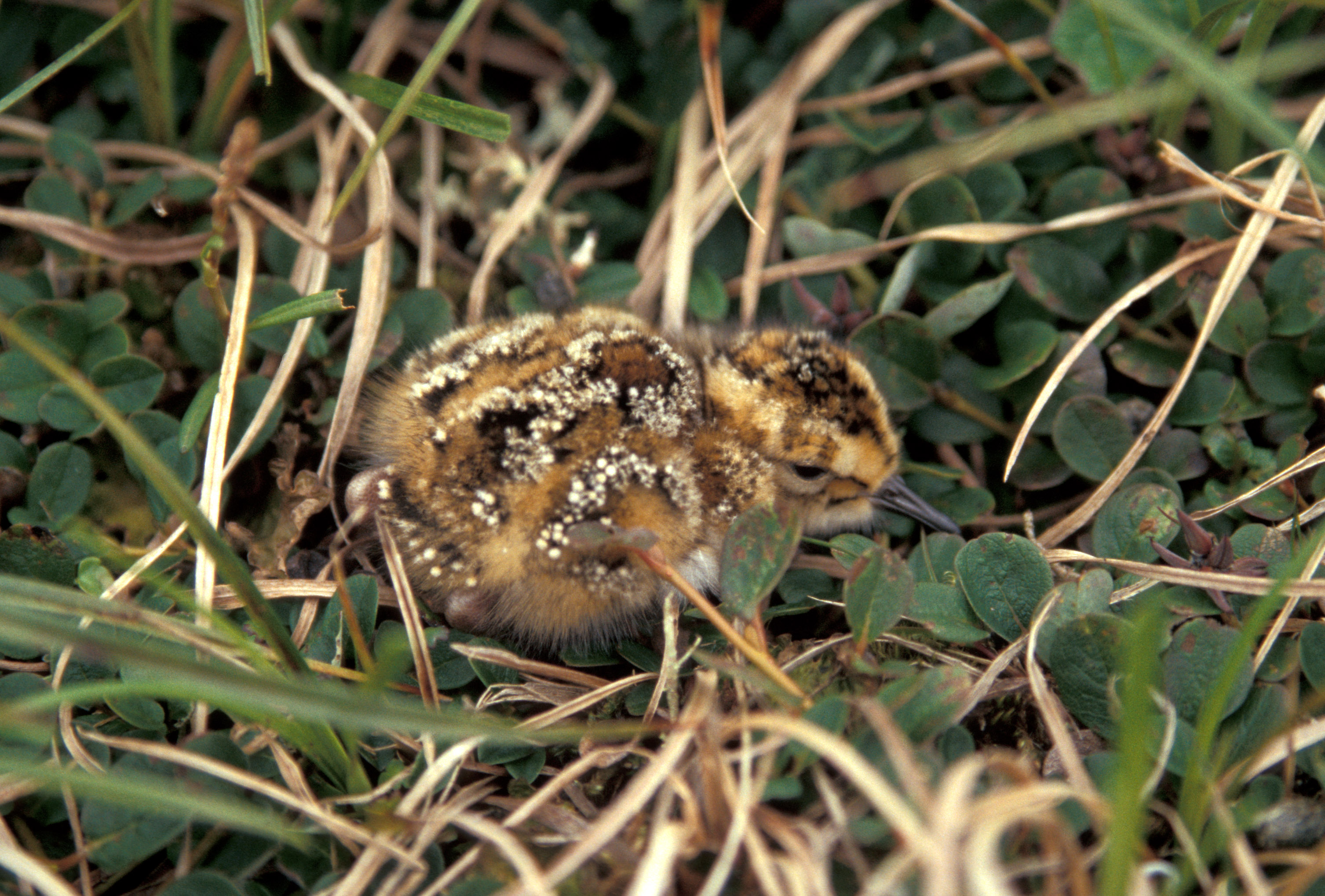 Rock Sandpiper chick Hall Island